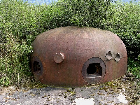 AM Bell (at the work of Welschhof)